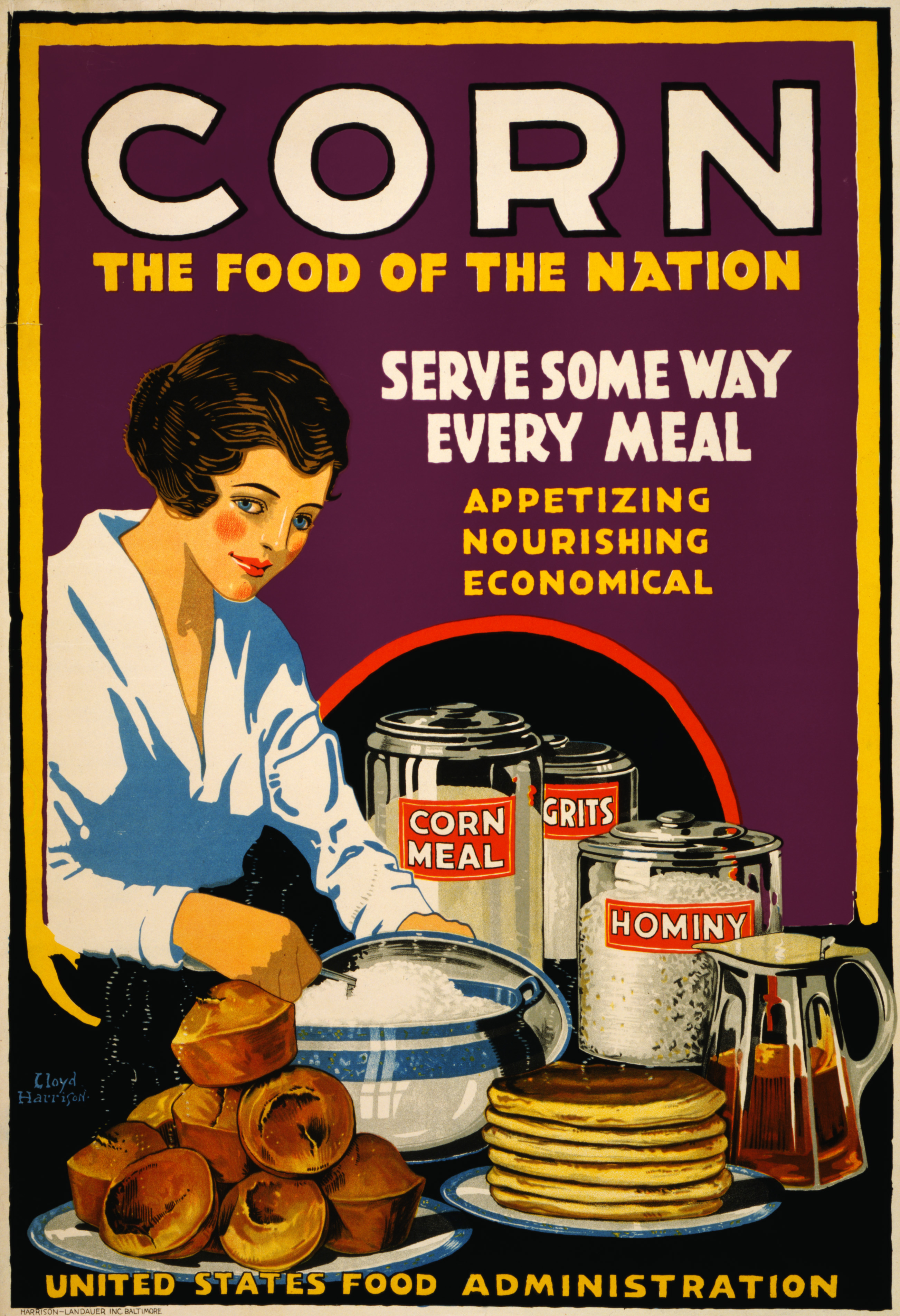 Poster showing a woman serving muffins, pancakes, and grits, with canisters on the table labeled corn meal, grits, and hominy. Text: "Corn, the food of the nation. Serve some way every meal: appetizing, nourishing, economical."